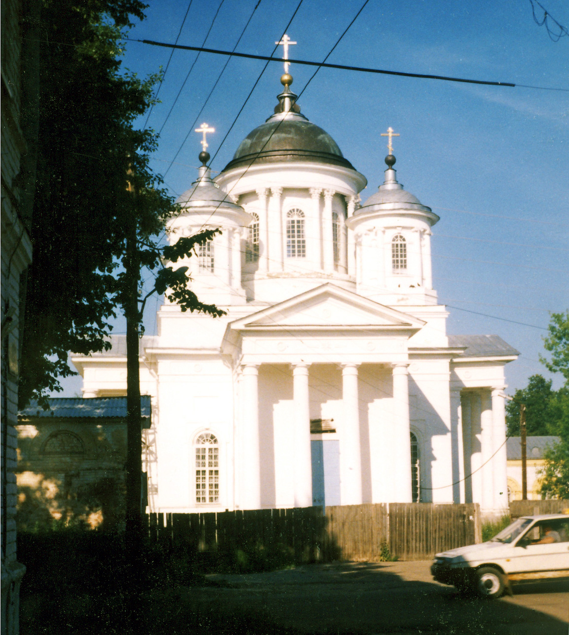 Ascension Church